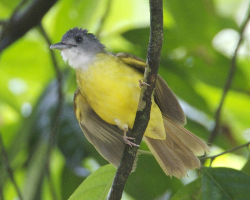 Yellow-bellied Bulbul Alophoixus phaeocephalus Nominate race, Alophoixus phaeocephalus phaeocephalus 14th. June 2009 Panti Forest, Johor, Malaysia 690V8126